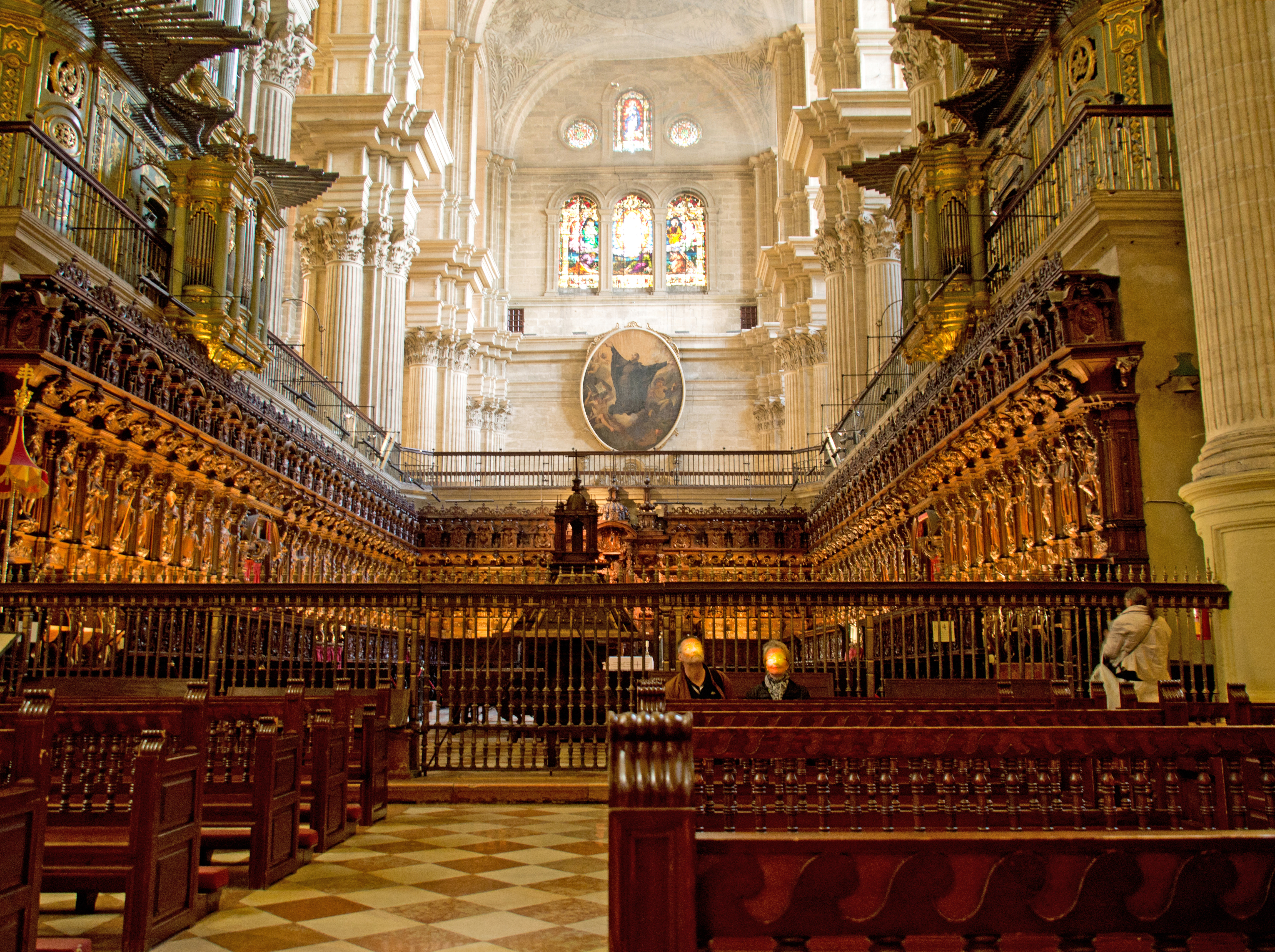 Choir of the Cathedral of Málaga.